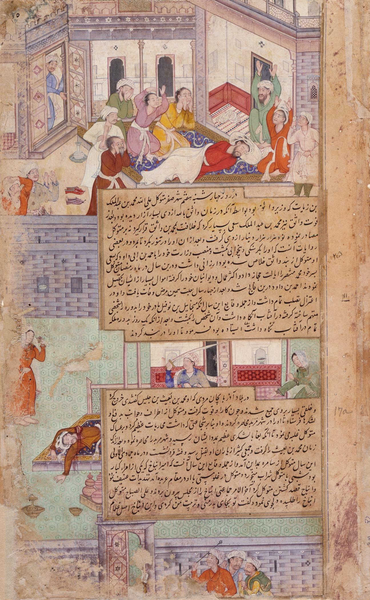 Pakistan, Lahore, Mughal, circa 1594 Drawings; watercolors Opaque watercolor, gold, and ink on paper From the Nasli and Alice Heeramaneck Collection, Museum Associates Purchase (M.78.9.4) South and Southeast Asian Art